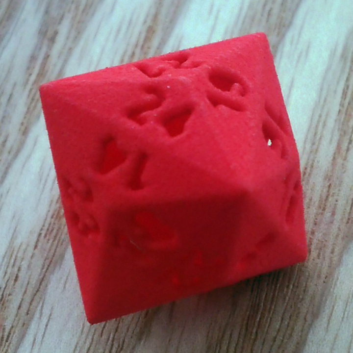 D24 triakis octahedron